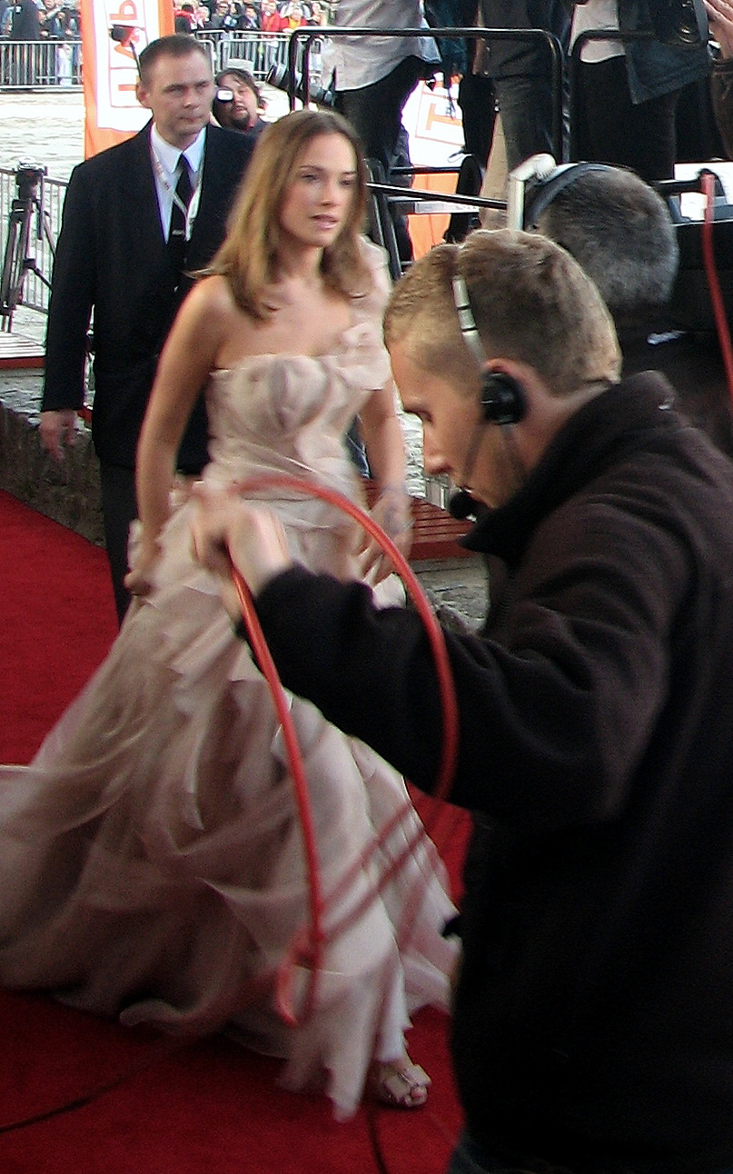 Alicja Bachleda-Curuś at closing gala of the XXXV Polish Film Festival in Gdynia 2010. The tent was removed after the festival.